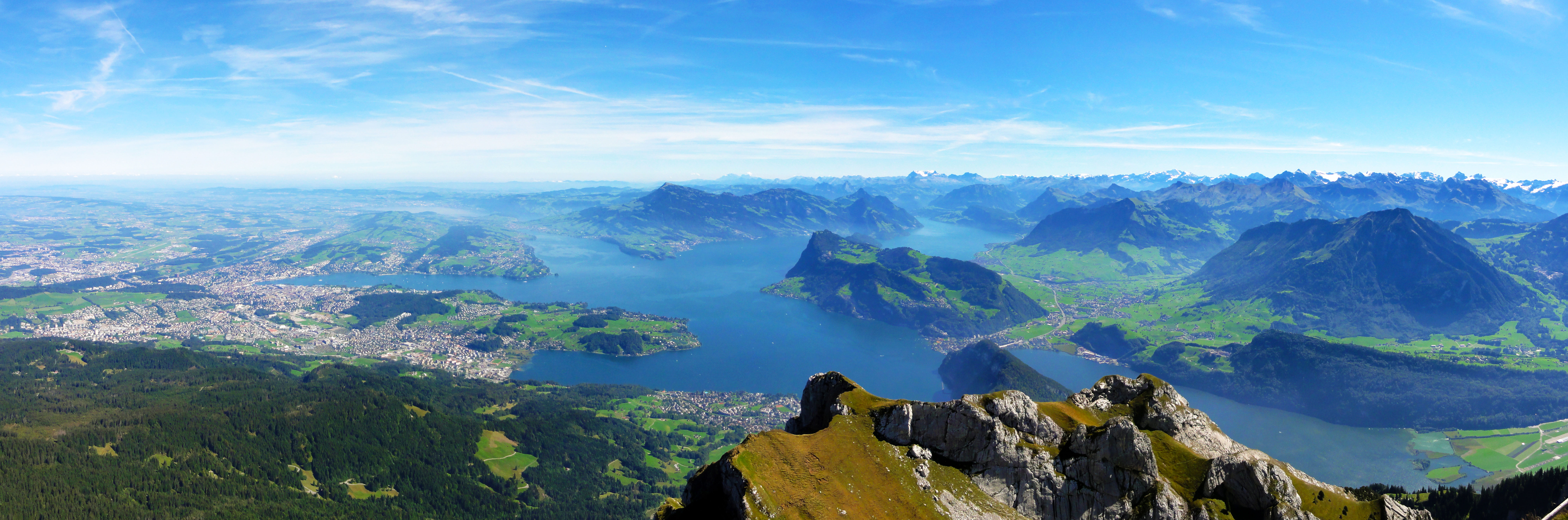 View on Luzern and Lake Lucerne from the top of Pilatus mountain